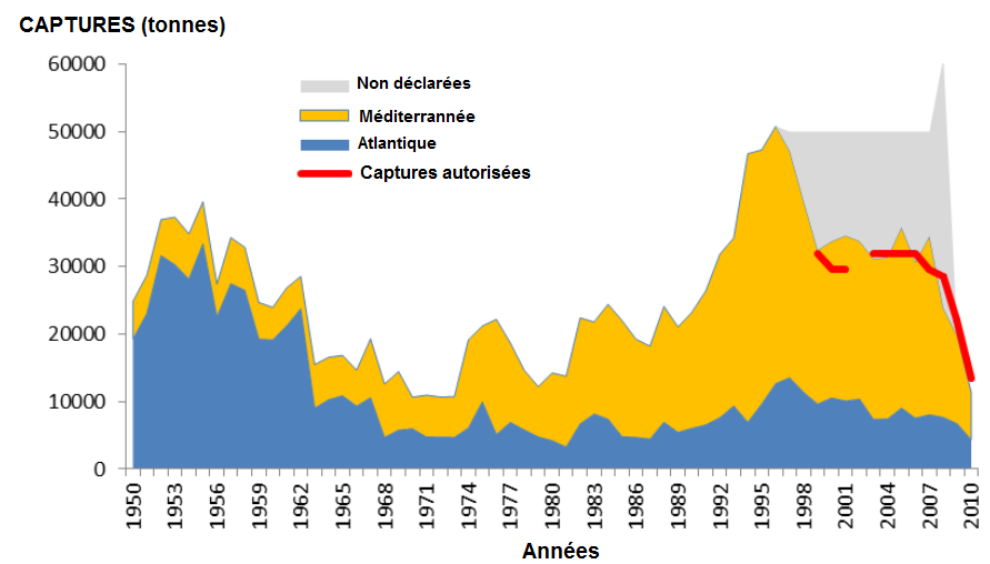 bluefin tuna catches since 1950 (Thunnus thynnus)